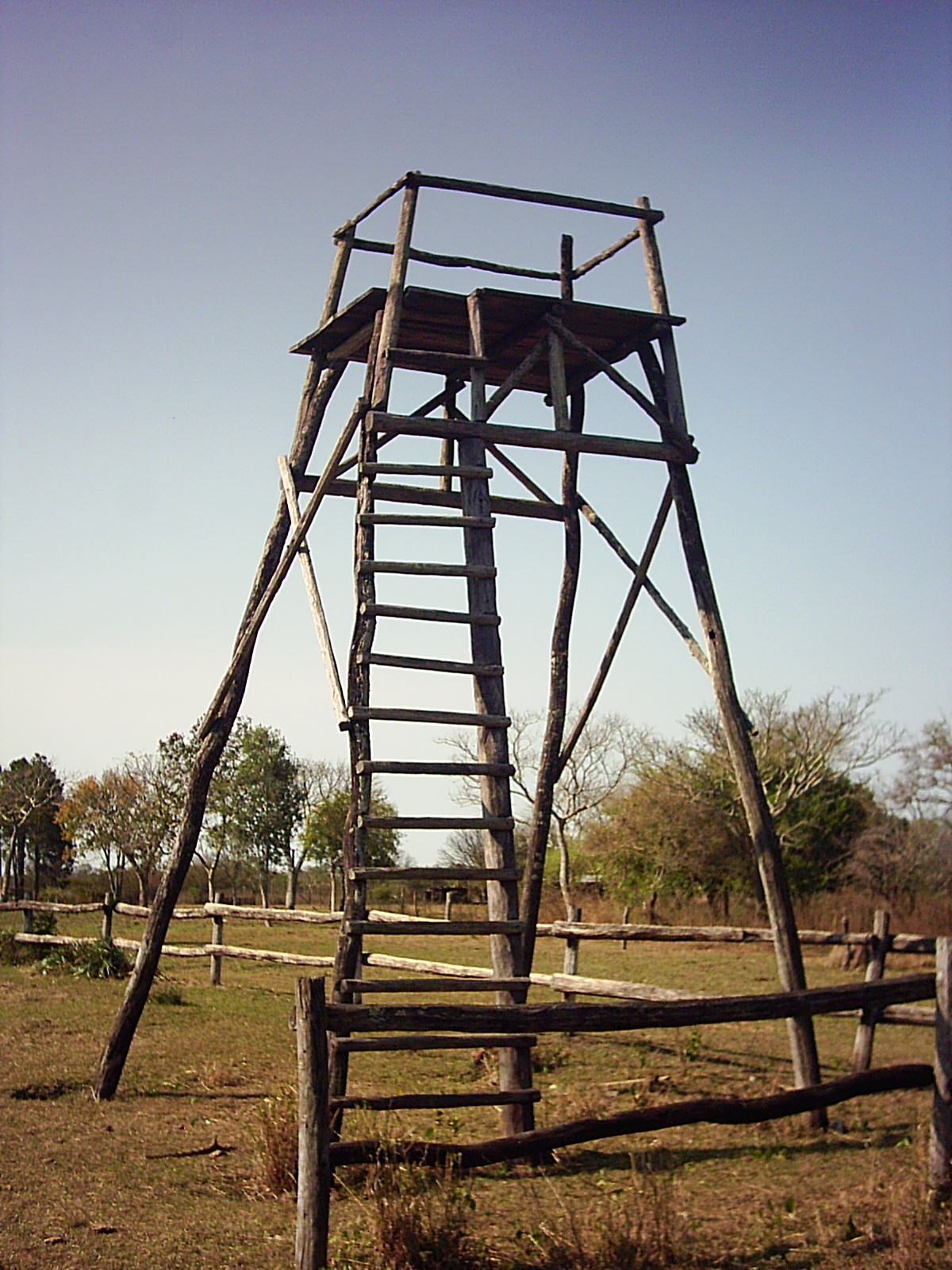 A mangrullo in San Buenaventura del Monte Alto, Resistencia, Chaco, Argentina. This is a kind of watch tower, where guardians could warn about an indian or forest attack in the Pampas (South of South America).